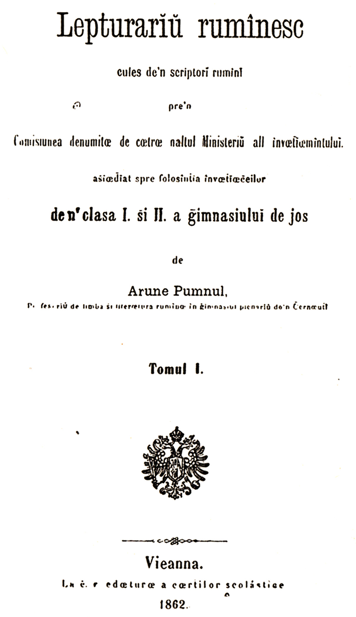 Title page of an official Romanian-language textbook and literary anthology, printed in the Austrian Empire: Lepturarĭŭ rumînesc, Vol. I, Vienna. The author, and presumably the target audience, were from Bukovina region. Printed in antiquated and dialectal Romanian, one of several spellings in circulation. Full title: Lepturarĭŭ rumînesc, cules de'n scriptorĭ rumînĭ pre'n Comisiunea denumitœ de cœtre naltul Ministeriŭ all invœťĭœmîntuluĭ, aśiœďĭat spre folosînťia învœťĭœćeilor de n' clasa I śi II. a ģimnasiuluĭ de jos ("Romanian Chrestomancy, Collected from Romanian Writers through the Commission Appointed by the Ministry of Education, Designed to be Used by Students of the Ist and IInd Grades of the Lower Gymnasium").